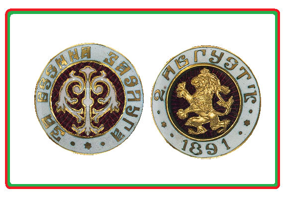 Medaillons of the Bulgarian Order of Military Merit with the white ring that was used in time of war. The medaillon with the cypher is the front.